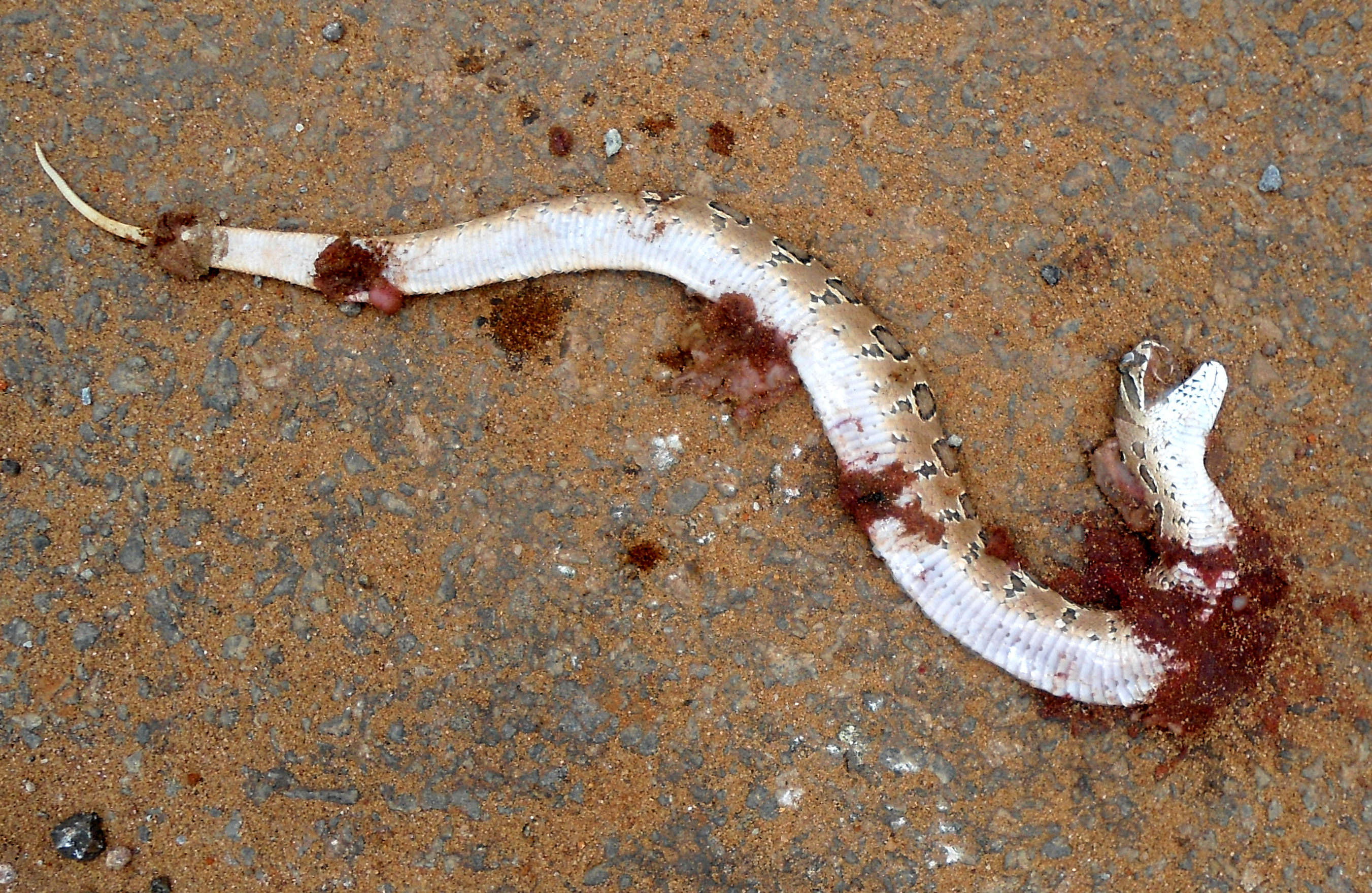 (Daboia russelii) Russells viper's road kill on Tirumala Ghat Road, Sri Venkateswara National Park, Tirupati